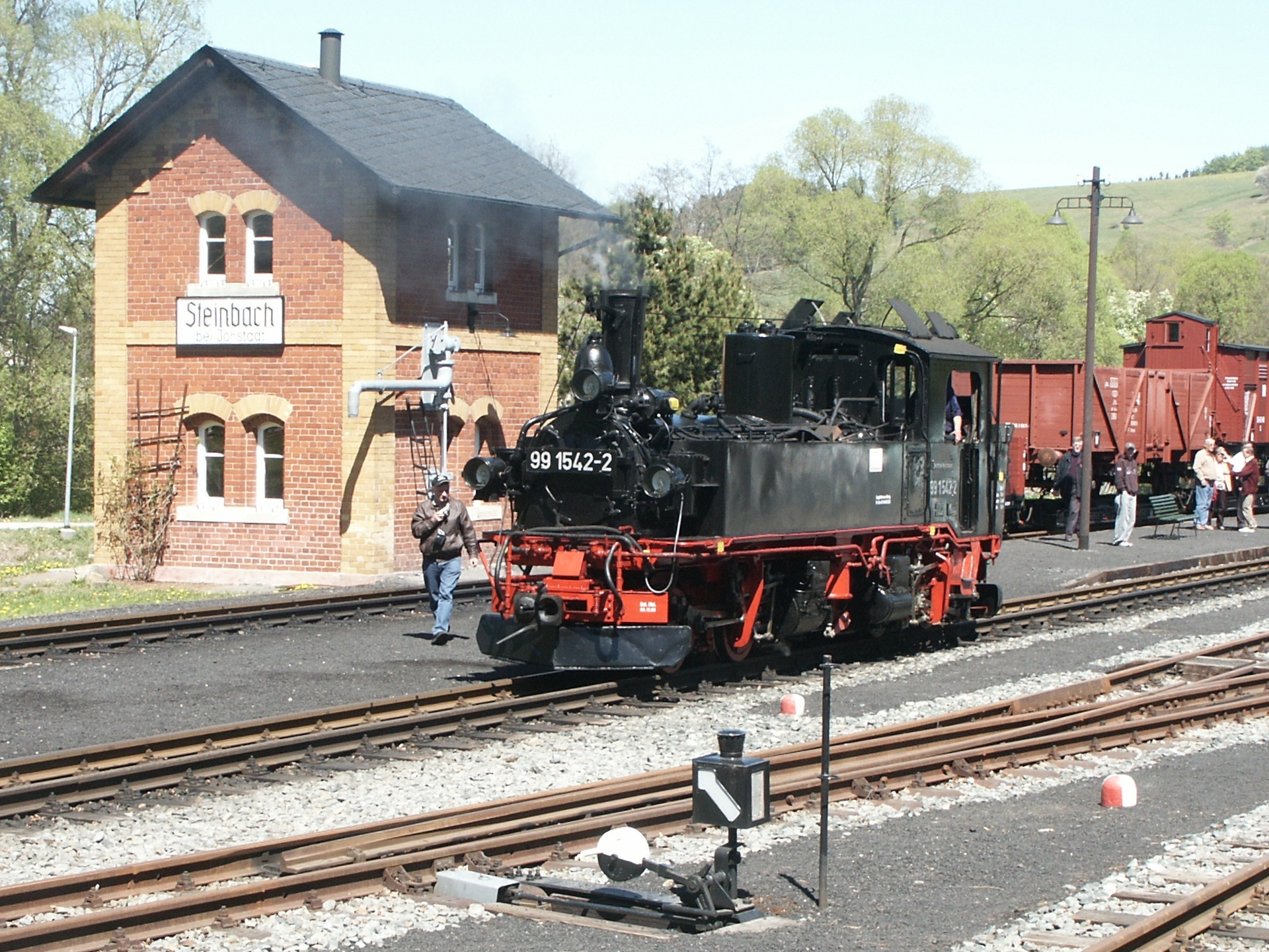 Narrow gauge steam locomotive IV K 99 1542-2 in Steinbach, Saxony